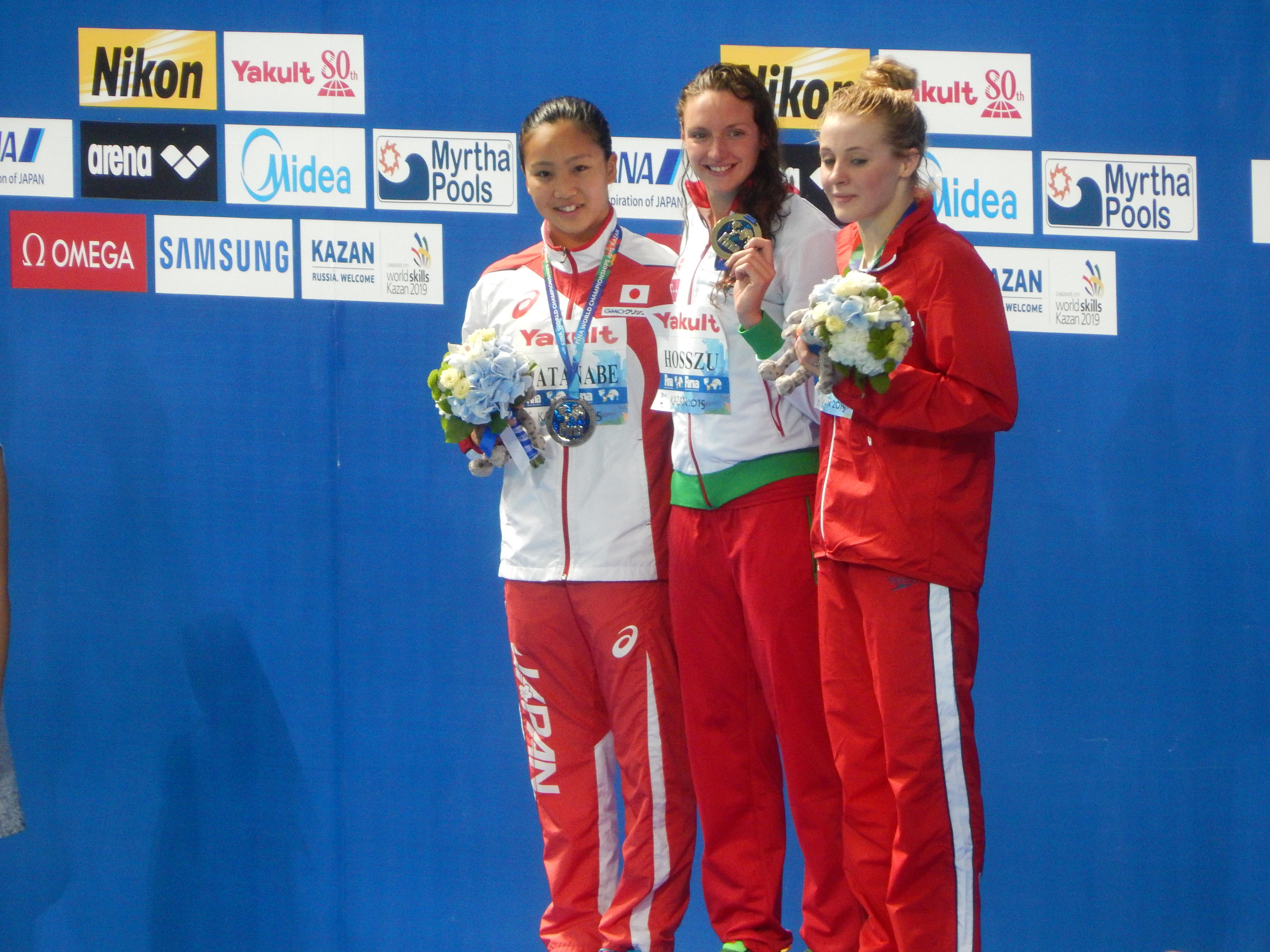 Medallists at the women's 200 metres IM in Kazan 2015